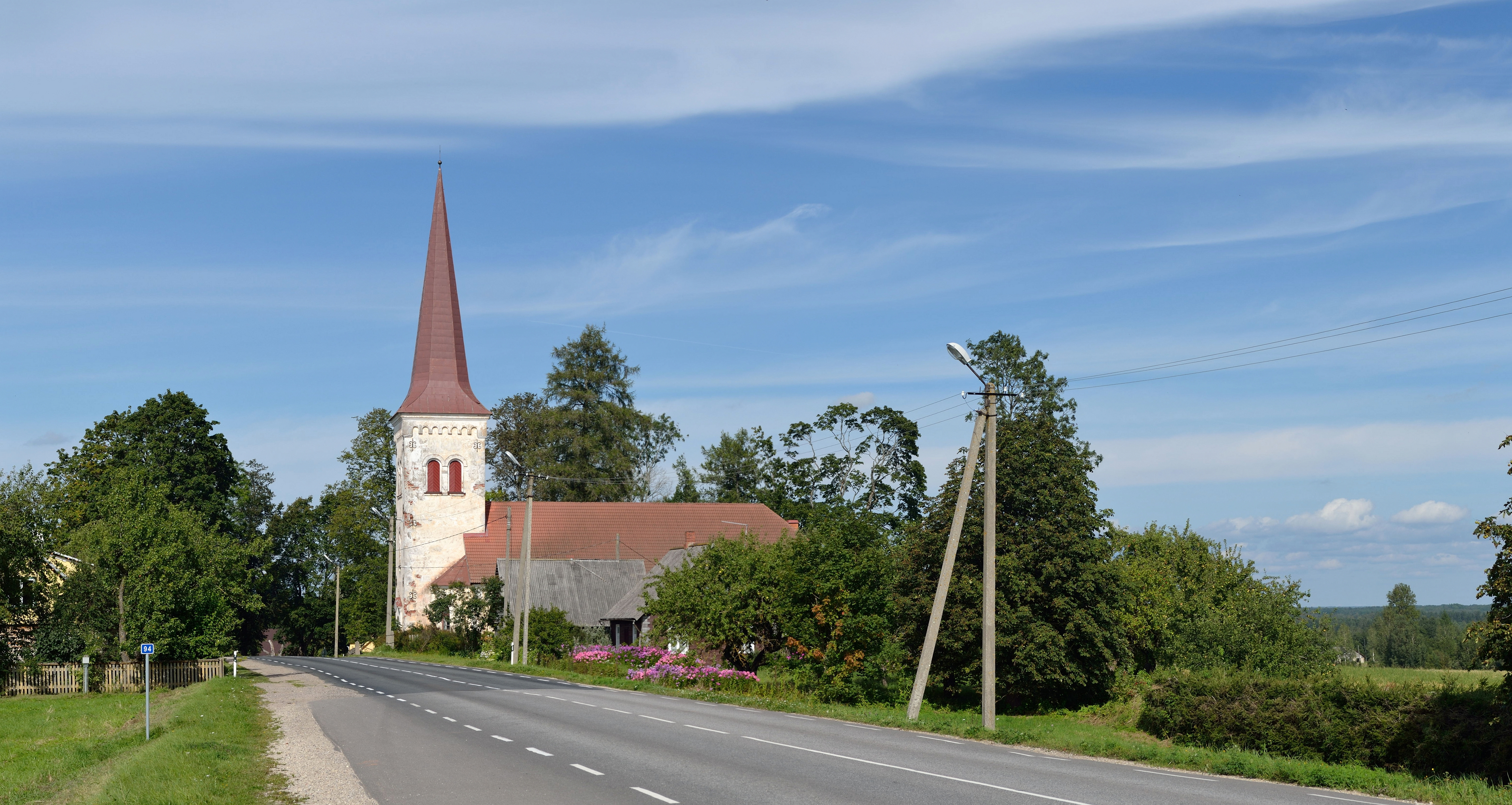 Kõpu church and Tartu–Viljandi–Kilingi-Nõmme road